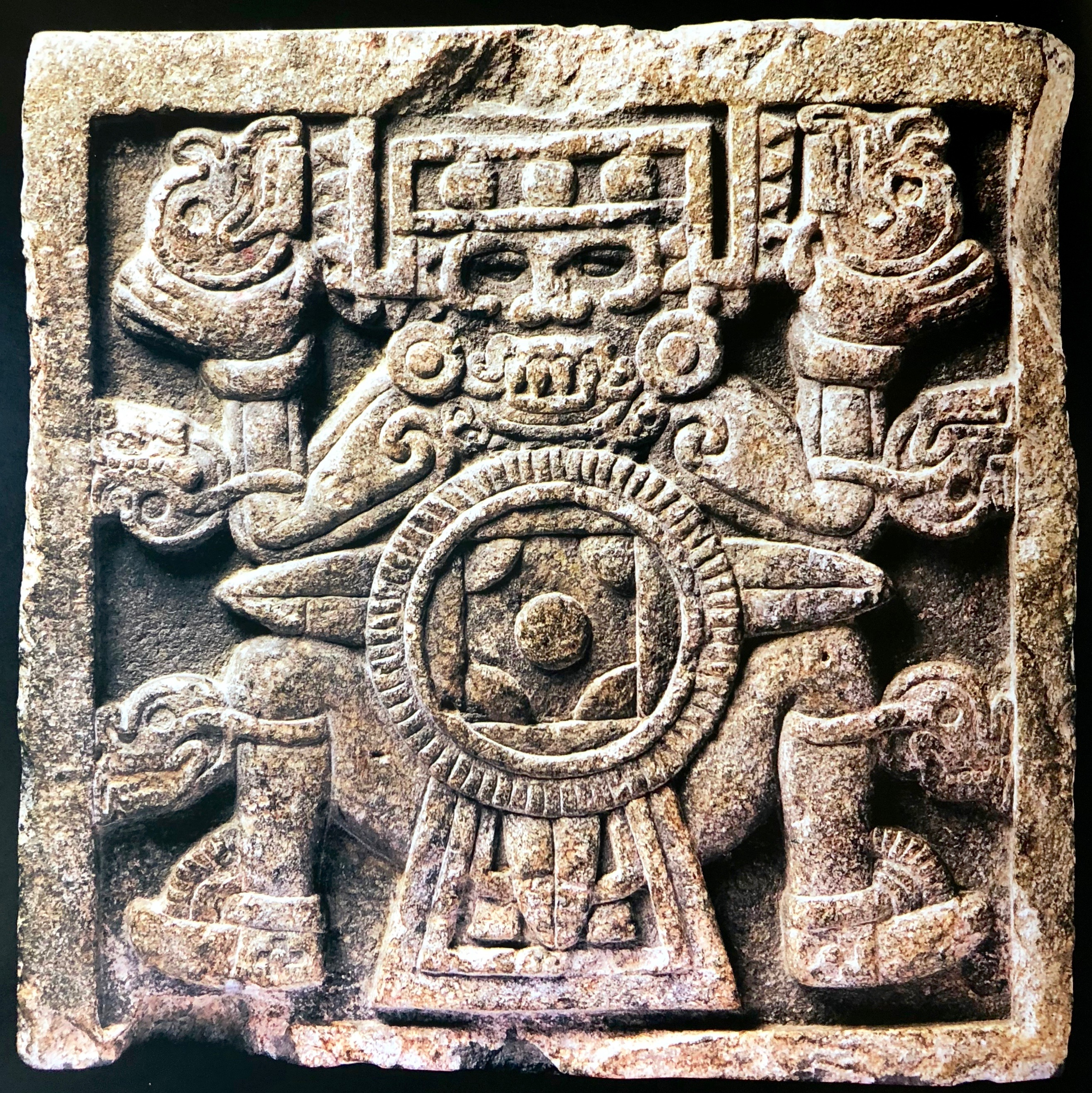 Masculine anthroaormorphization of Tlaltecuhtli, found in Tenochtitlan